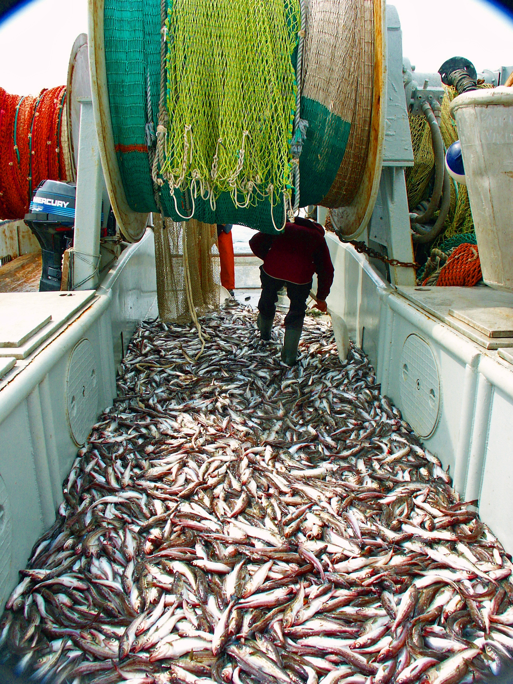 Trawl catch of pollock caught during an acoustic trawl survey. Alaska, Stephens Passage.